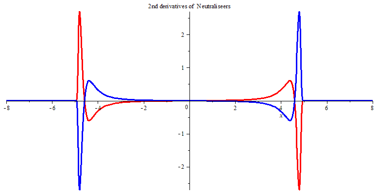 Second derivatives of Neutralisers